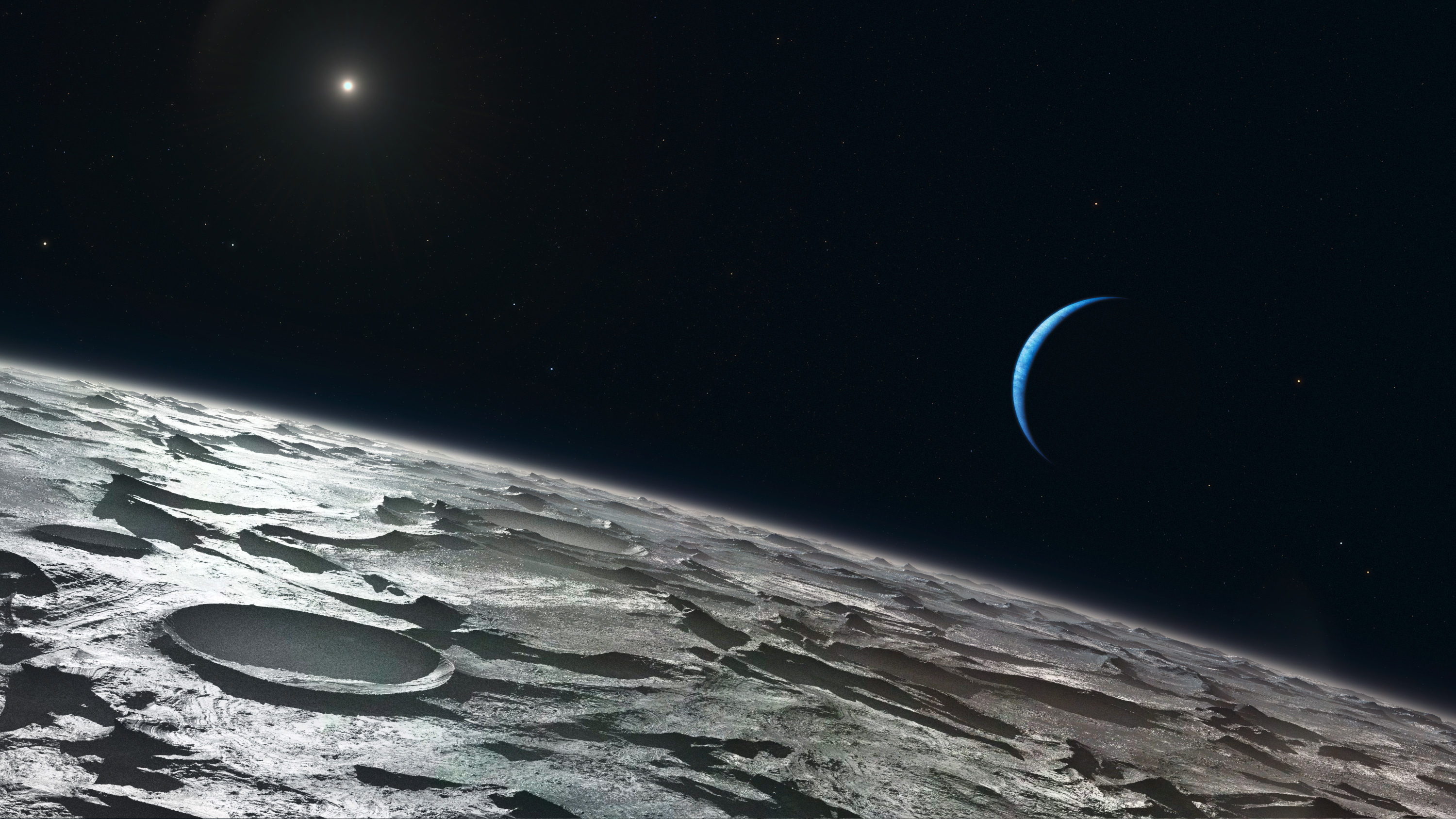 Artist’s impression of how Triton, Neptune’s largest moon, might look from high above its surface. The distant Sun appears at the upper-left and the blue crescent of Neptune right of centre. Using the CRIRES instrument on ESO’s Very Large Telescope, a team of astronomers has been able to see that the summer is in full swing in Triton’s southern hemisphere.